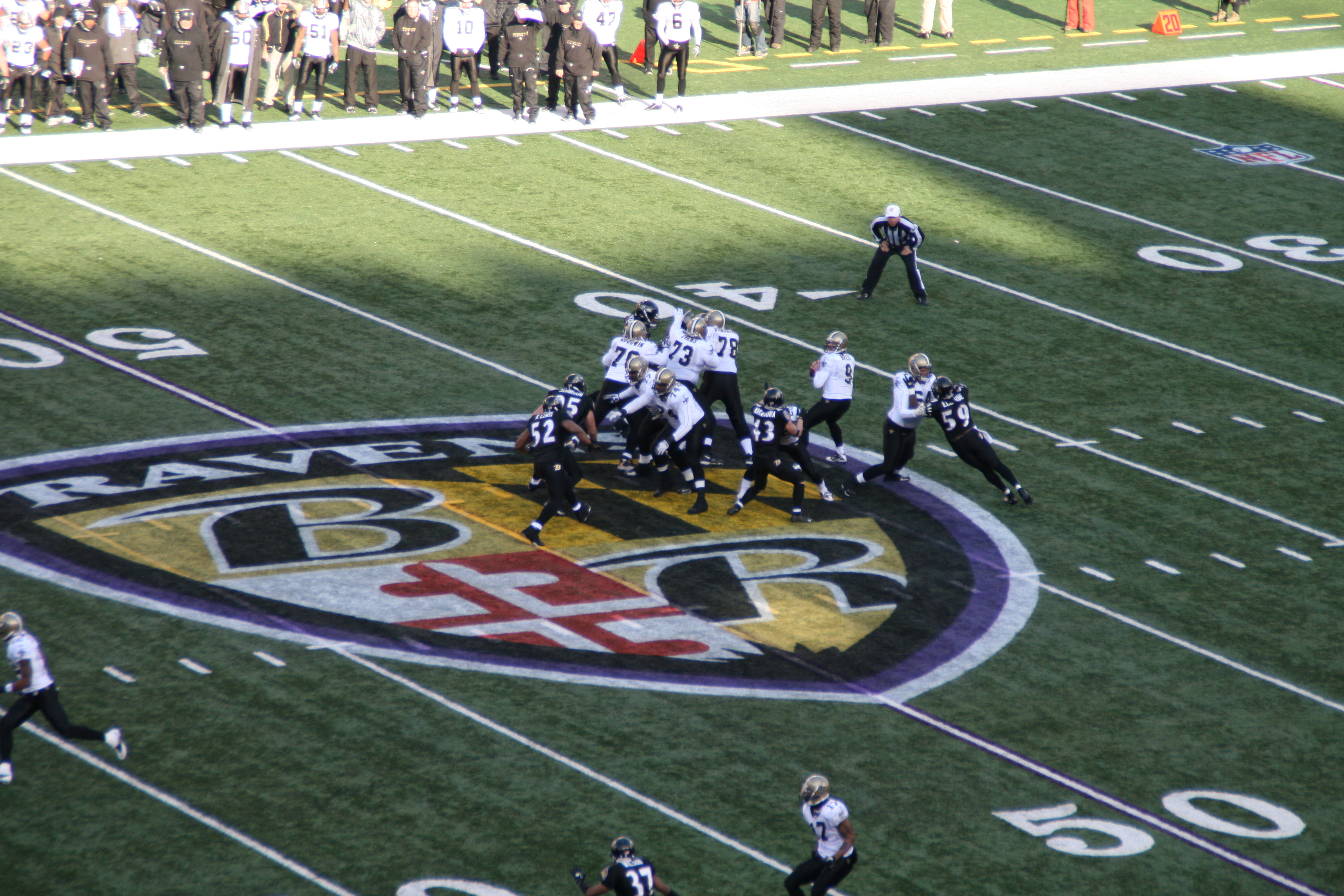 Saints vs Ravens December 2010- Saints quarterback Brees (#9) drops back as Lewis (#52) blitzes